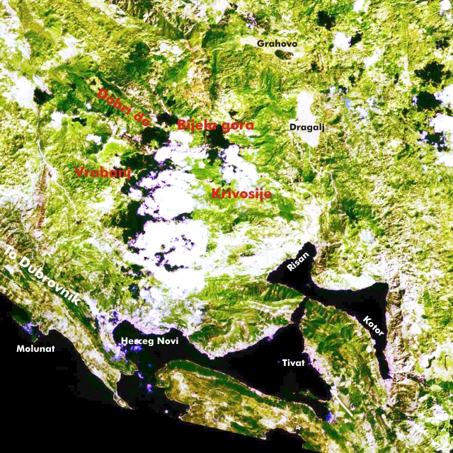 Landsat satellite image of the wider area of Mount Orjen and Bay of Kotor. Copyright (c) 2001 Pavle Cikovac.